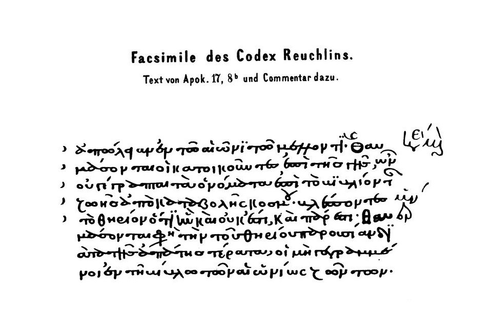 Codex Reuchlinianus, Minuscule 2814 (in the Gregory-Aland numbering), from facsimile of Delitzsch (F. Delitzsch, Handschriftliche Funde: Die Erasmischen Entstellungen des Textes der Apokalypse (Leipzig 1861)